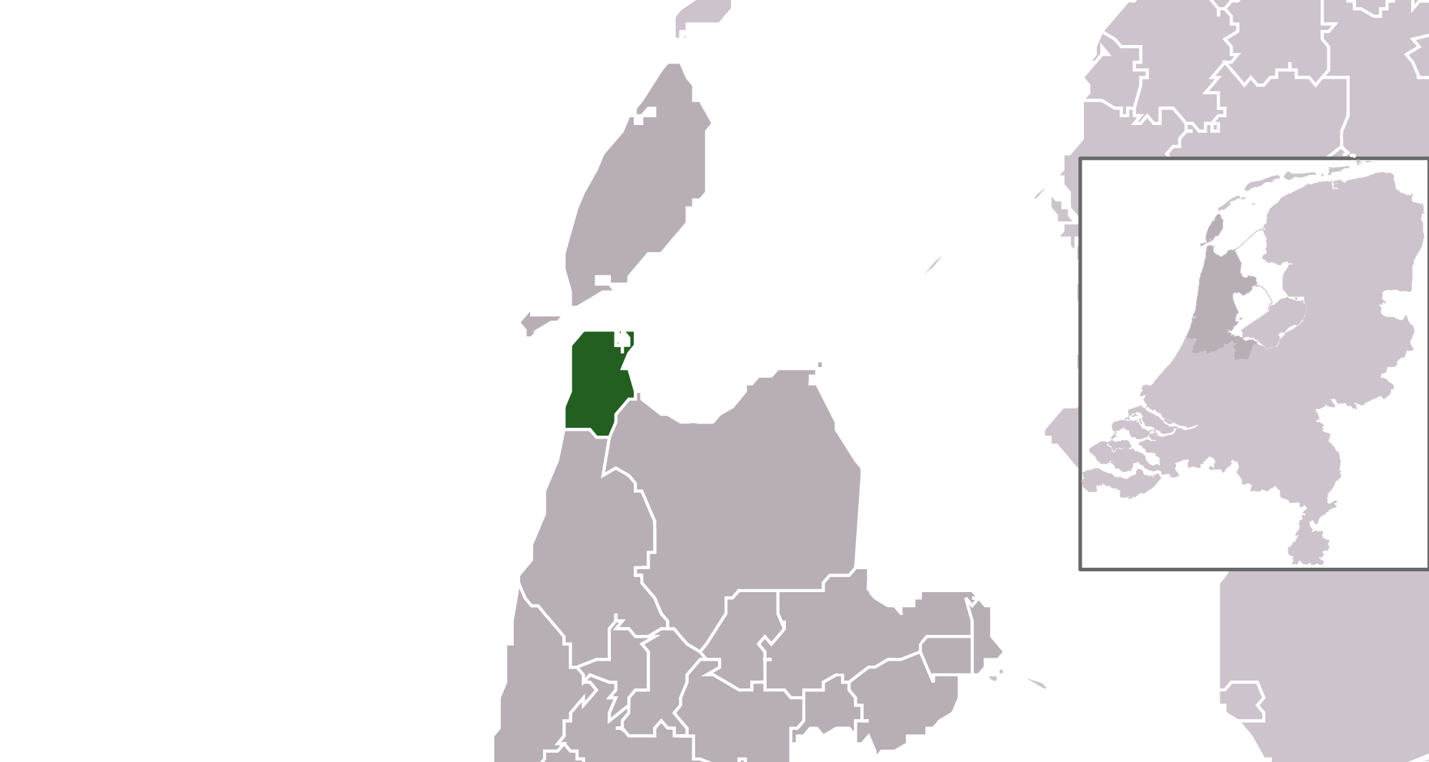 Location maps for the 441 municipalities in the Netherlands. Boundaries 1/1/2009 Automatically generated with script File name contains "Municipality code" (CBS-code) as specified in: [1] Created in svg using coordinate data derived from ESRI data published by Centraal Bureau voor de Statistiek, Voorburg/Heerlen. ([2]) Color coding and original design (slightly adpated by me) by user Mtcv (2006/2007) ([3]) Updated until January 1, 2014 The copyright holder of this file, Centraal Bureau voor de Statistiek, allows anyone to use it for any purpose, provided that the copyright holder is properly attributed. Redistribution, derivative work, commercial use, and all other use is permitted. Attribution: Centraal Bureau voor de Statistiek This work is free and may be used by anyone for any purpose. If you wish to use this content, you do not need to request permission as long as you follow any licensing requirements mentioned on this page.